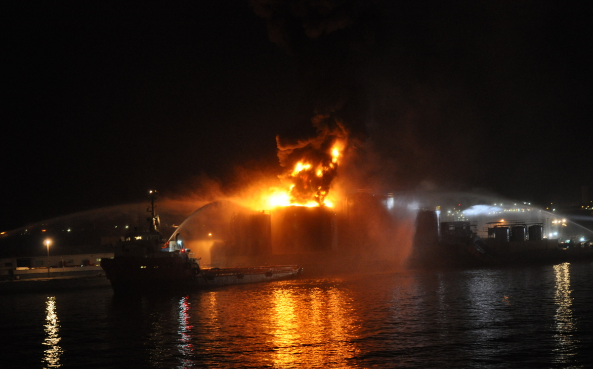 On 31 May 2011 an Oil Sullage Tank exploded at Gibraltar Port next to a cruise liner visiting Gibraltar. The ensuing fire took firefighters 18 hours to put out.